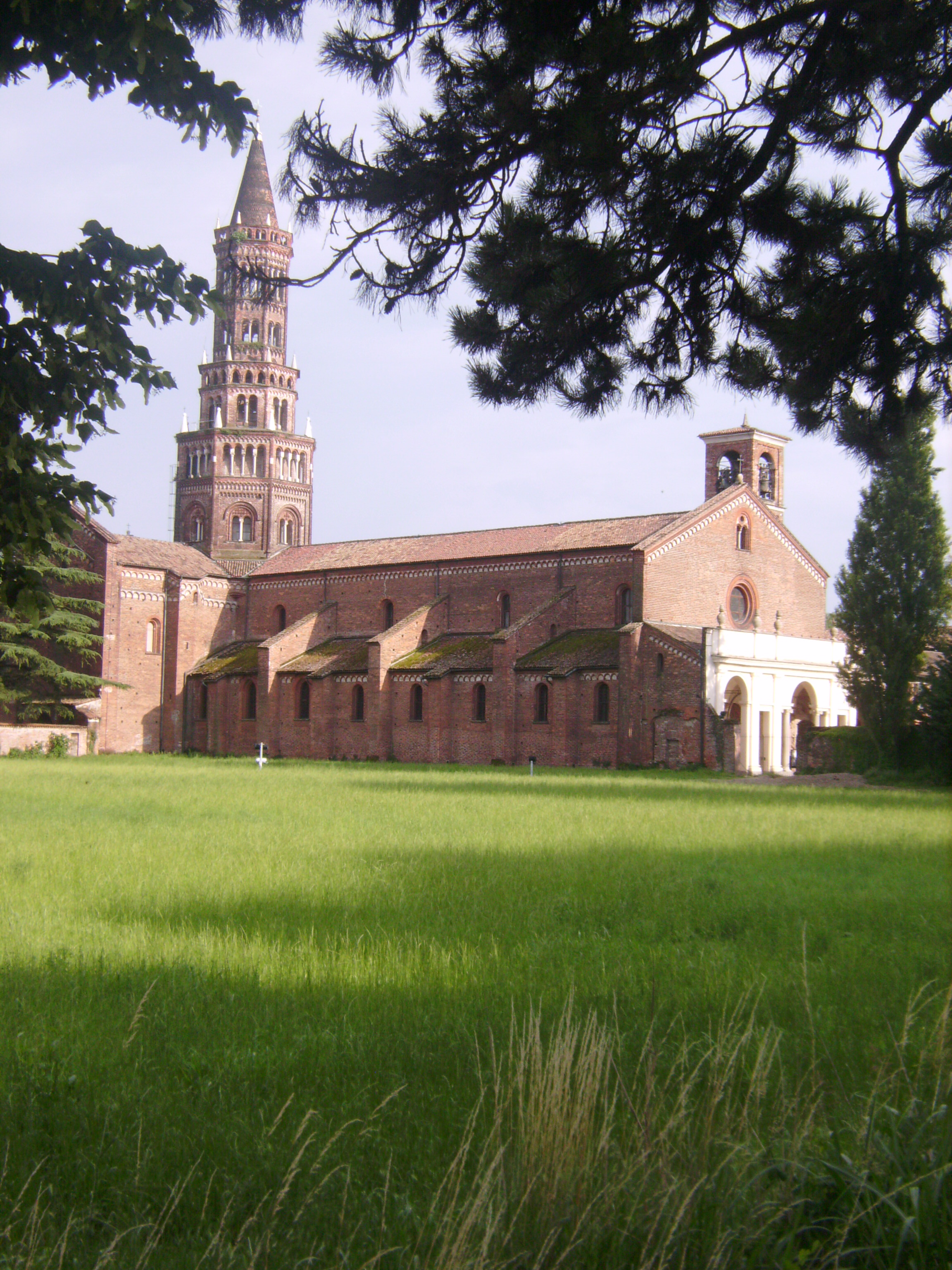 This abbey is a beautiful abbey out of Milan. There is a beautiful cloister and two bell towers.